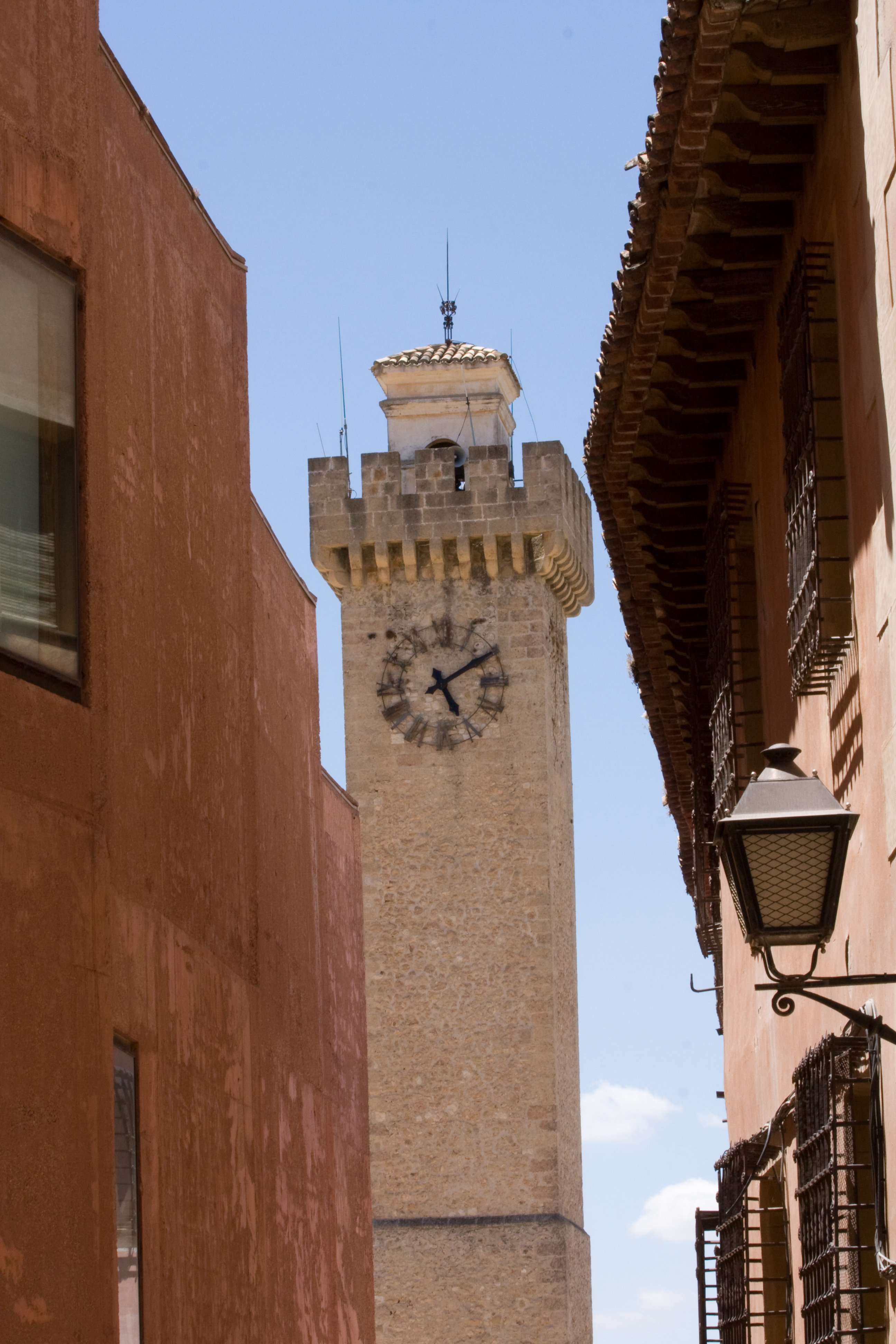 The Tower of Mangana is at the top of the town and thus served as a lookout tower. The word Mangana refers to the city`s original clock tower. It has been restored several times, including in the 20th Century.